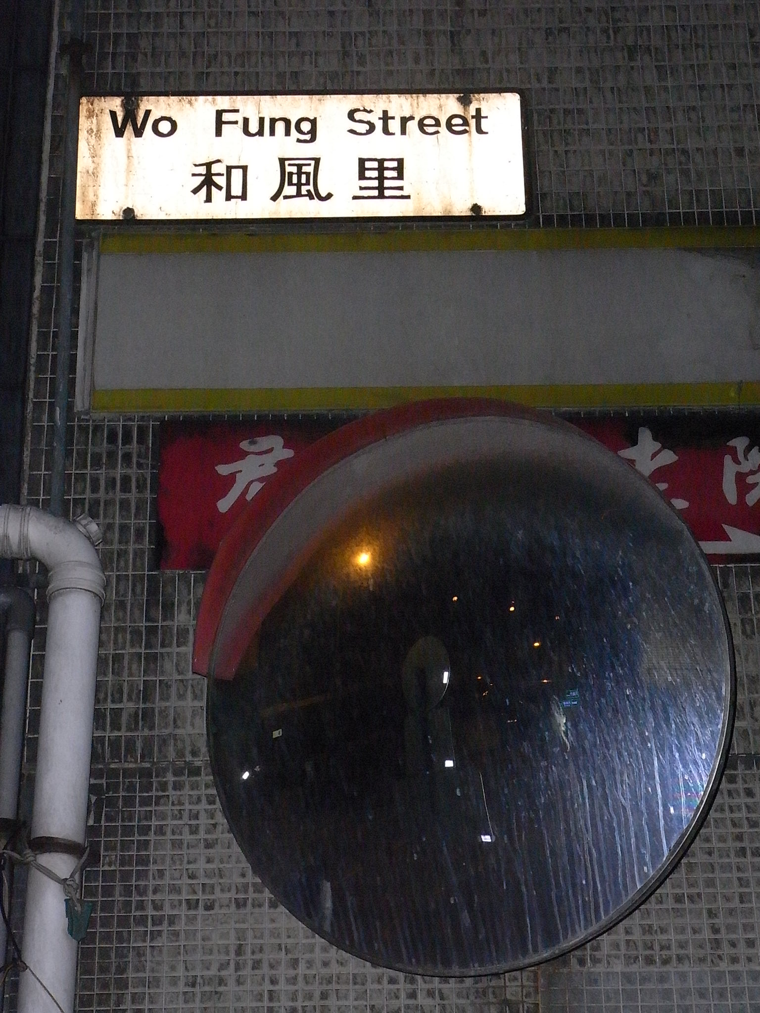 香港島 和風里